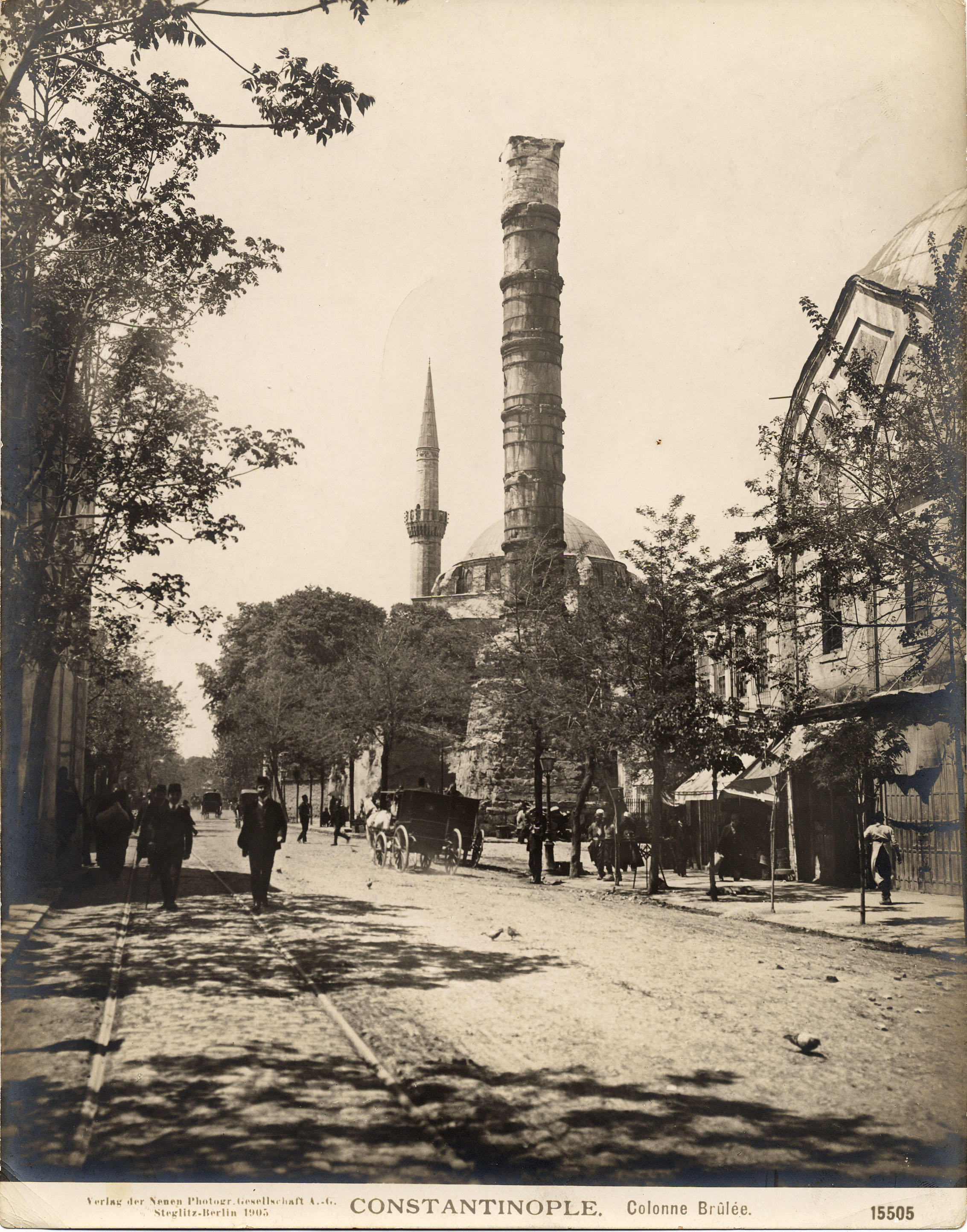 The Column of Constantine in Çemberlitaş, comprises six cylindrical marble pieces held together with metal rings. It was taken from the Temple of Apollo in Rome to Constantinople in 330 A.D., on the order of Constantine I, to celebrate the new capital of the empire. In 1081 the column was partially damaged by a bolt of lightning. Manuel Komnenos I restored the column, adding the marble corinthian head and installing a large cross. After the conquest of İstanbul, the cross was removed. It was lightly damaged by fire in 1672 and the marbles and metal work were restored in 1701. In the early republican period the buildings around the column were demolished in order to give it more prominence. SALT Research, Photography Archive SALT Research, Harika-Kemali Söylemezoğlu Archive SALT Research, Ali Saim Ülgen Archive Çemberlitaş Sütunu, taşlarla örülmüş bir kaidenin üstünde duran, araları metal çemberlerle tutturulmuş silindir şeklindeki altı mermer parçanın oluşturduğu bir dikilitaştır. 330’da İmparator I. Konstantin’in emriyle, Roma’daki Apollon Tapınağı’ndan sökülerek Konstantinopolis’e getirildi. 1081’de yıldırım isabet etmesi sonucu yandı. I. Manuel Komnenos tarafından onarılarak üstüne, günümüzde hâlen yerinde duran mermer korint başlık kondu. 1672’deki yangında büyük zarar gördü; çatlayan mermerler, 1701’de çemberlerle sağlamlaştırıldı ve sütun bundan sonra Çemberlitaş adını aldı. Cumhuriyetin ilanından sonra çevresindeki birçok yapı yıkılarak sütun ortaya çıkarıldı, çeşitli düzenlemelerle bugünkü hâline getirildi. SALT Araştırma, Fotoğraf Arşivi SALT Araştırma, Harika-Kemali Söylemezoğlu Arşivi SALT Araştırma, Ali Saim Ülgen Arşivi